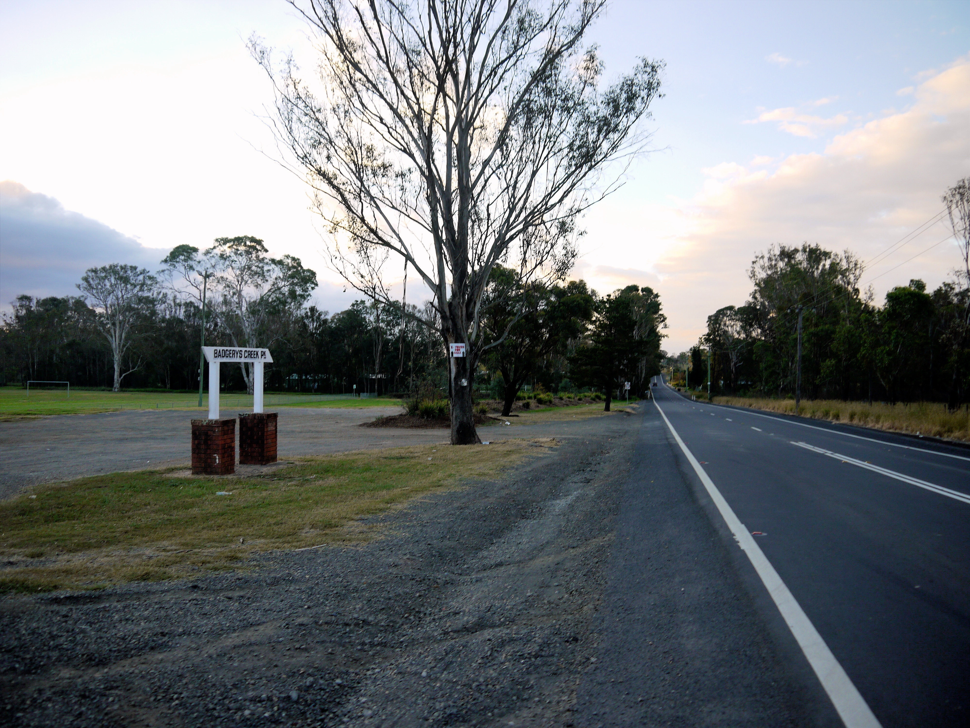 Badgerys Creek Road and Parkland, the site of the proposed Western Sydney Airport.